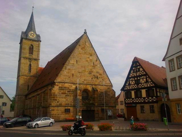 The late Gothic church St. Kilian is the landmark of Hallstadt